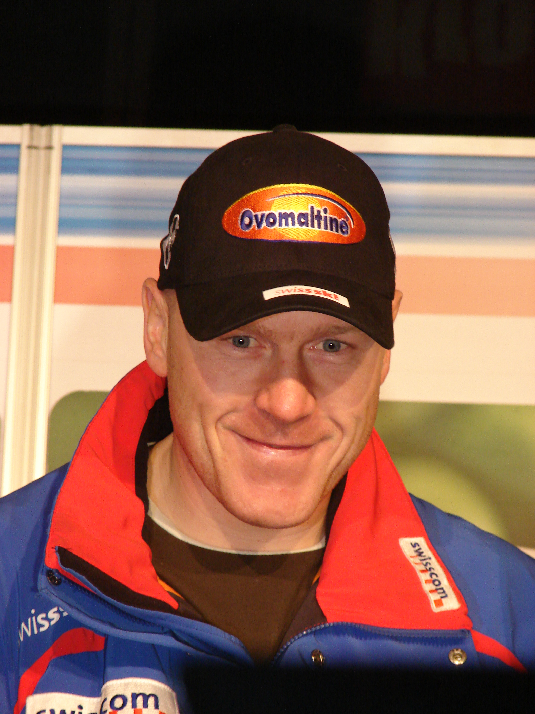 Didier Cuche during the prize giving ceremony for the Super G in Hinterstoder, Austria on Dec. 20, 2006.